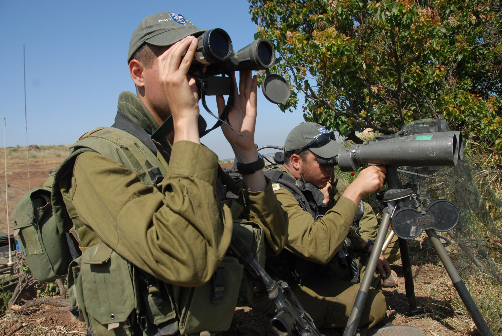 June 5, 2011 IDF soldiers prepare for expected "Naqsa Day" riots near the Quneitra Crossing on the Israeli-Syrian border. On May 15th of this year, hundreds of Syrian rioters infiltrated the Israeli-Syrian border into the village Majdal Shams, and in the center of the village violently rioted against IDF forces. IDF forces fired warning shots in order to deter the violent rioters from illegally infiltrating Israeli territory. Photography: Cpl. Gal Ashuach, IDF Spokesperson's Unit